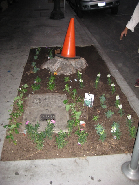 Guerilla Garden in front of Flying Pigeon LA